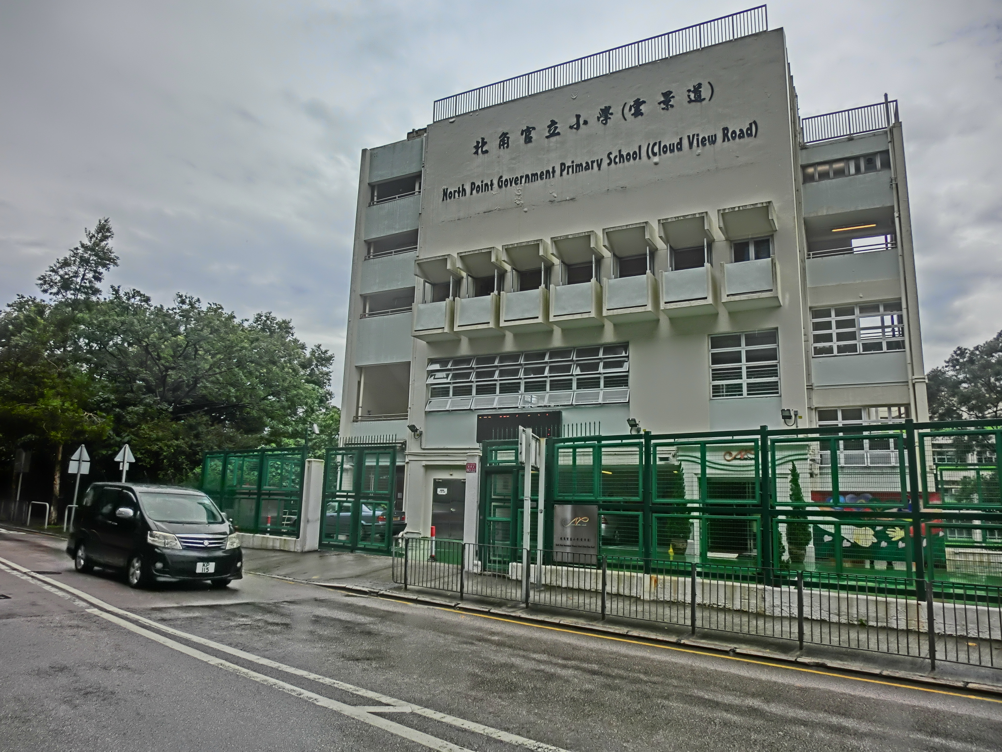 大坑 怡景道, Yee King Road, Tai Hang, Hong Kong